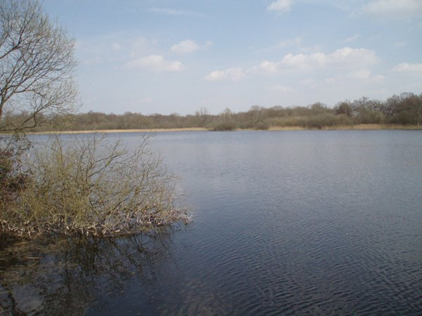 Thompson Water Thompson Water, a Breckland mere.